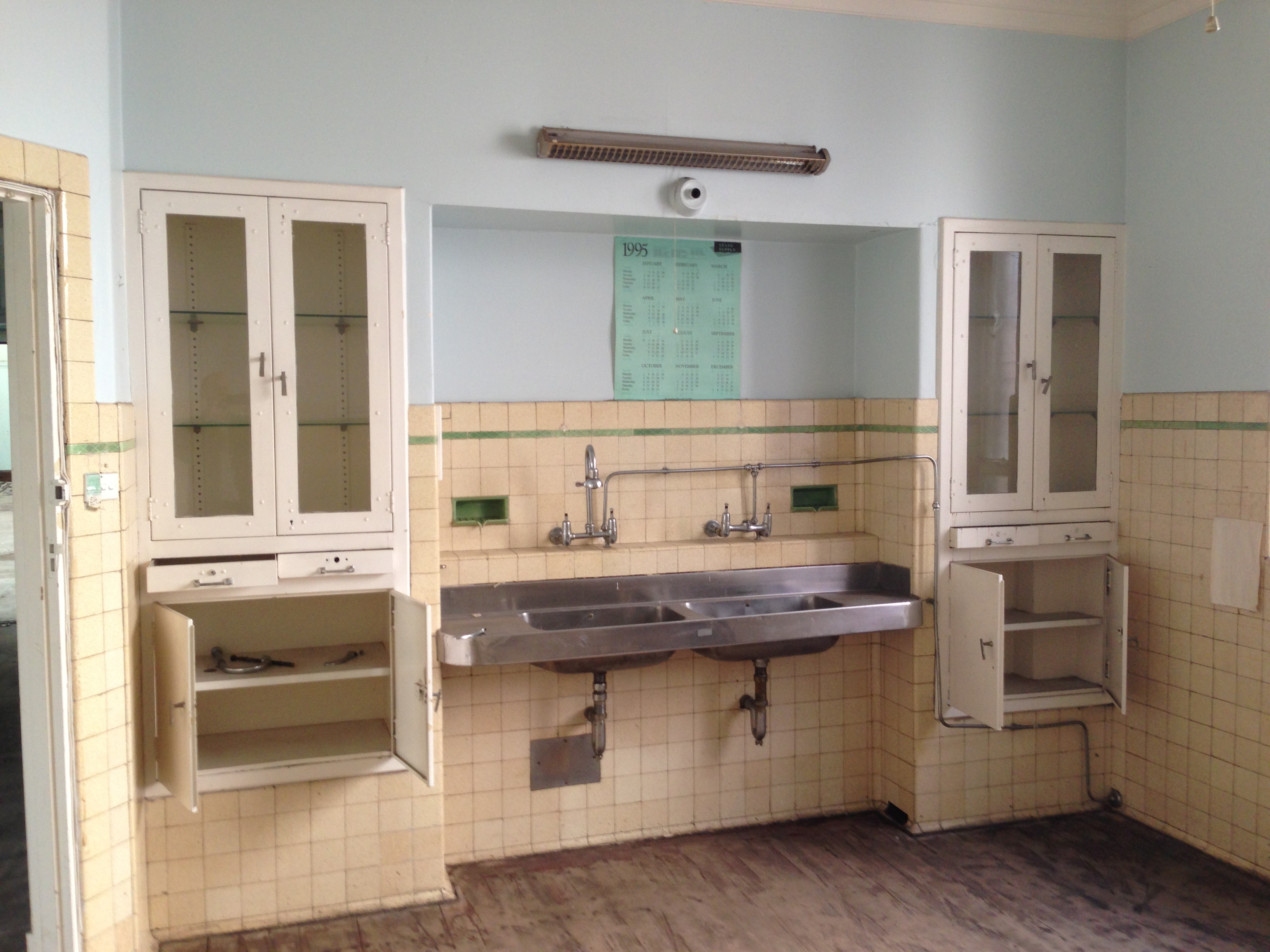 Original features of the theatre of the former Repatriation Commission Outpatient Clinic